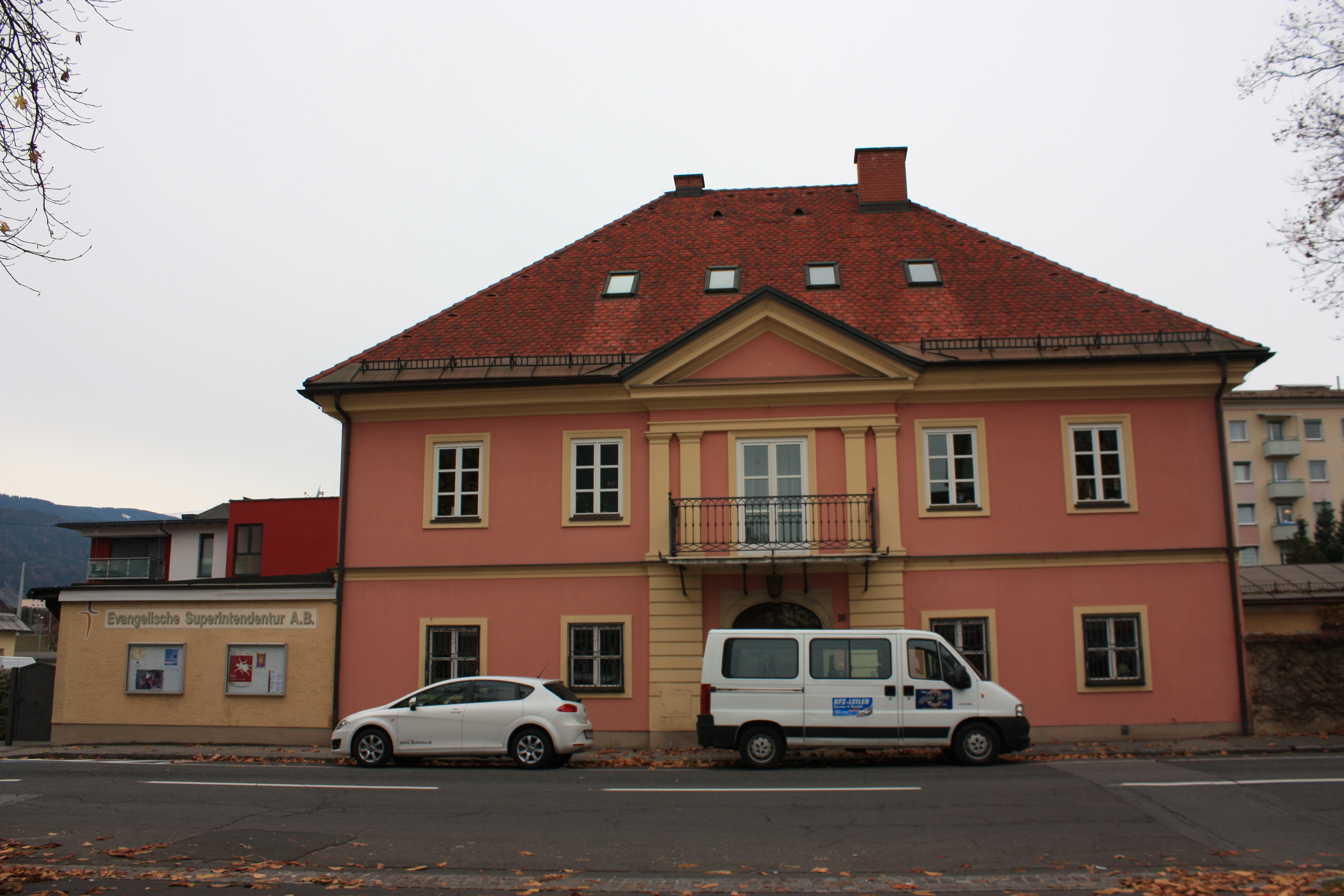 Administration building of the Carinthian Lutheran church A.B. (Augsburg Confession) Locality: Italiener Straße Community:Villach